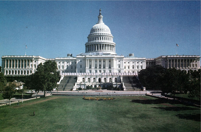 The U.S. Capitol building in Washington.